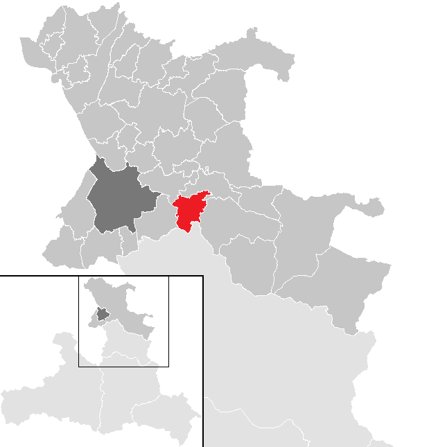 District Salzburg-Umgebung